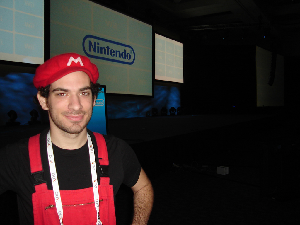 Super Mario Opera man at the Nintendo Keynote